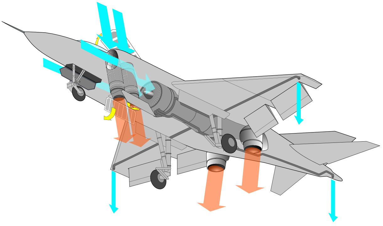 (same as old version)